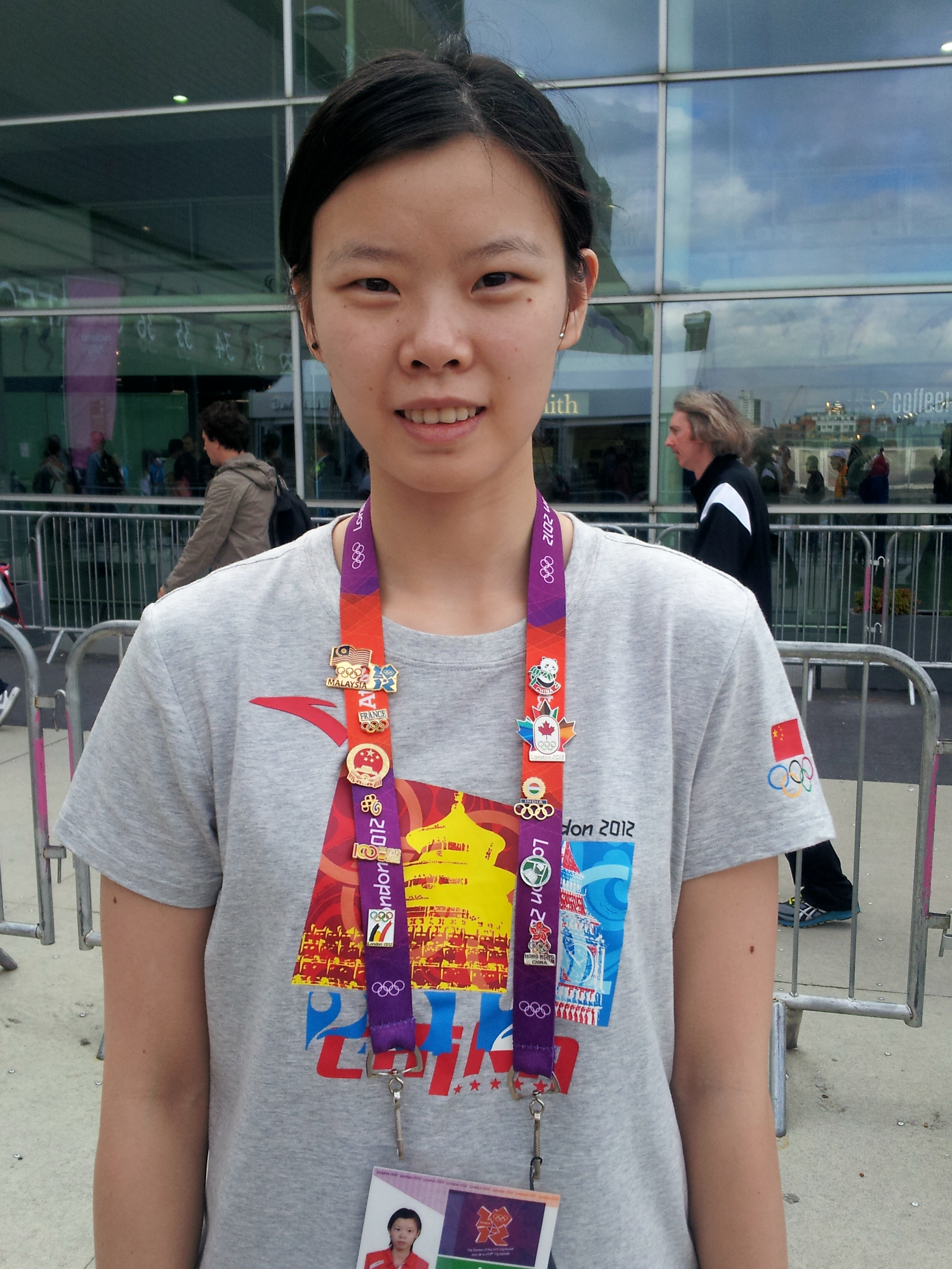 Chinese badminton player Li Xuerui, at The London 2012 Summer Olympic Games